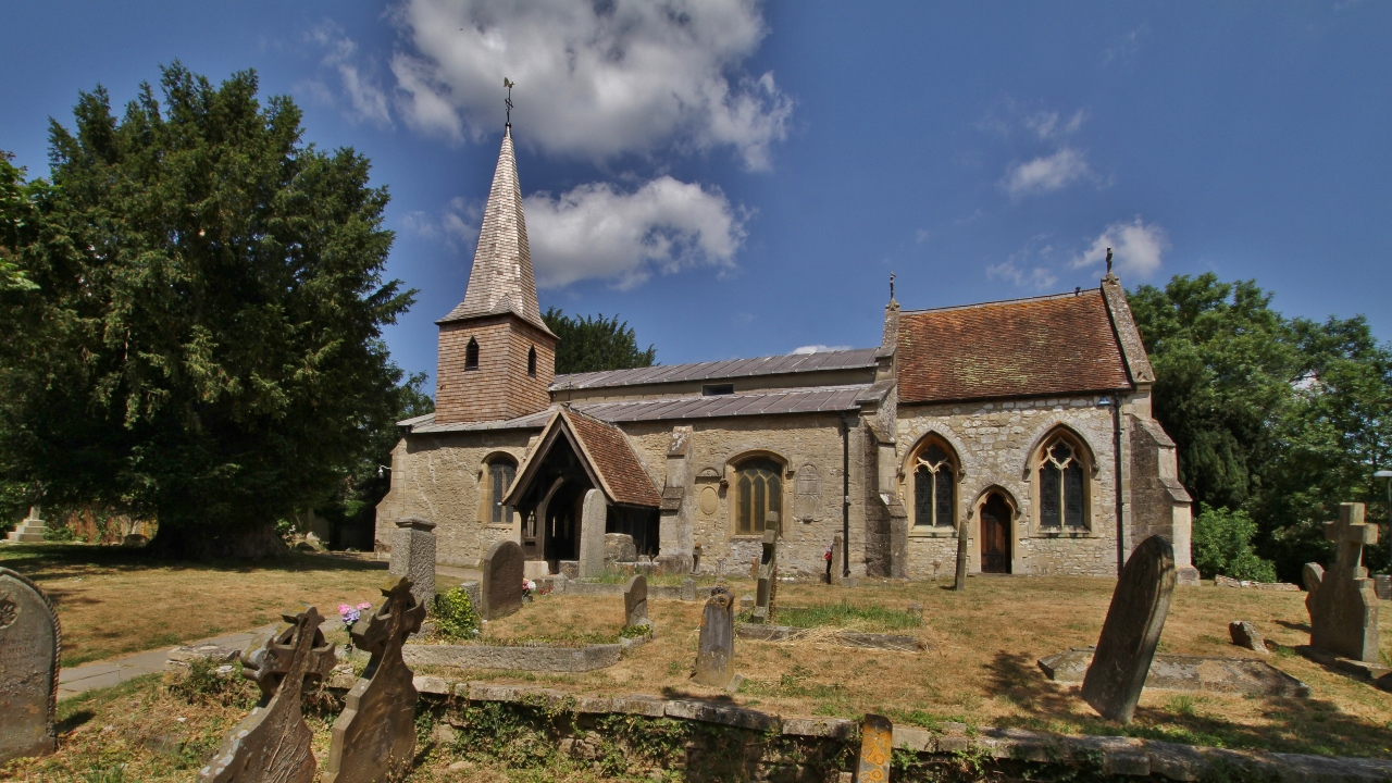 All Saints' parish church, Didcot, Oxfordshire (formerly Berkshire), seen from south-southeast